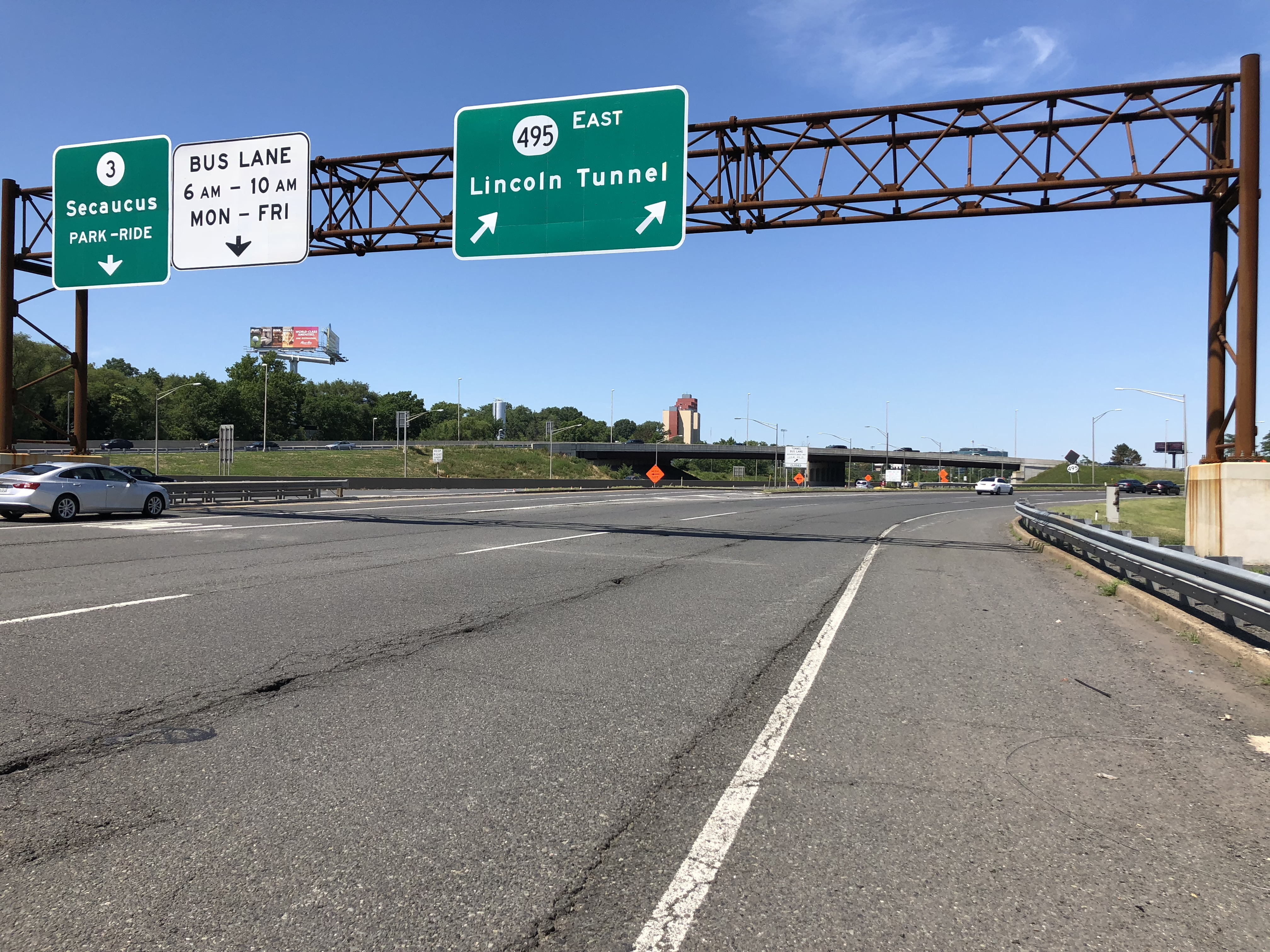 View east along New Jersey State Route 495 (Lincoln Tunnel Approach) at the exit for New Jersey State Route 3 (Secaucus) in Secaucus, Hudson County, New Jersey